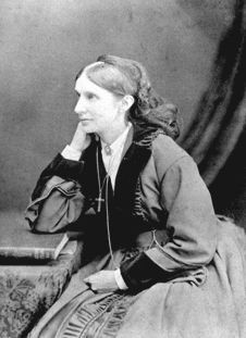 The English social reformer and feminist Josephine Butler in 1876